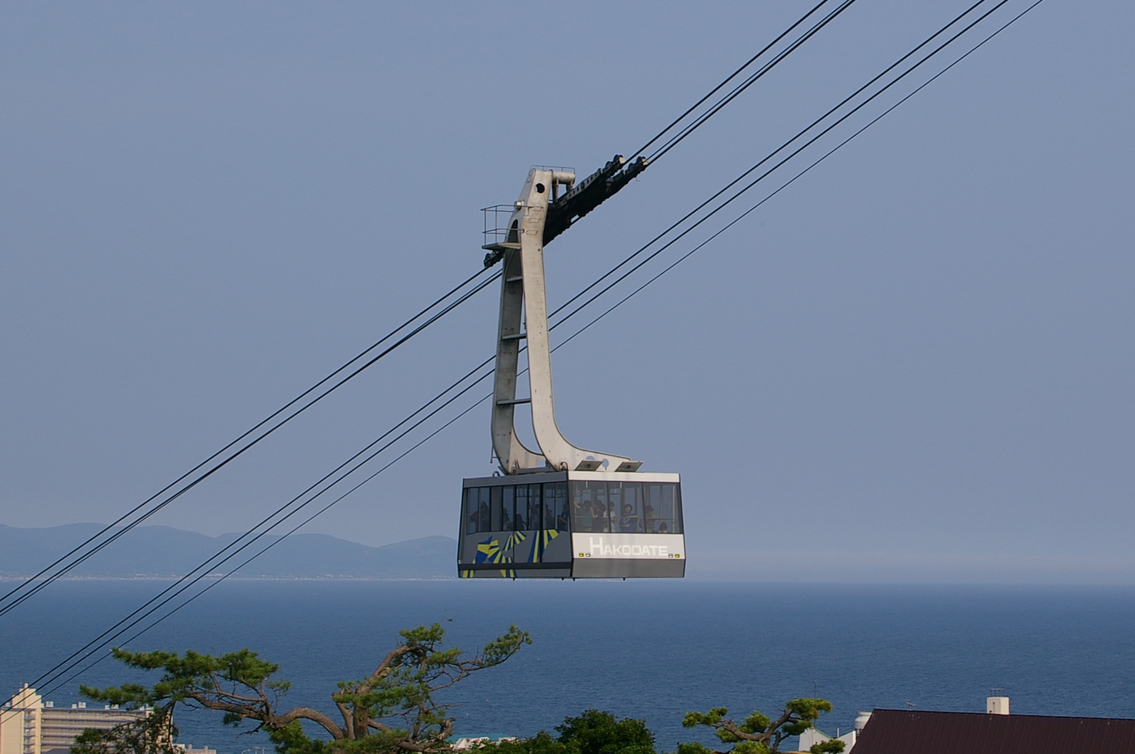 Photograph of the passenger cabin of Mt. Hakodate Ropeway viewed from Motomachi Water Distribution Plant of Hakodate City Waterworks Bureau.